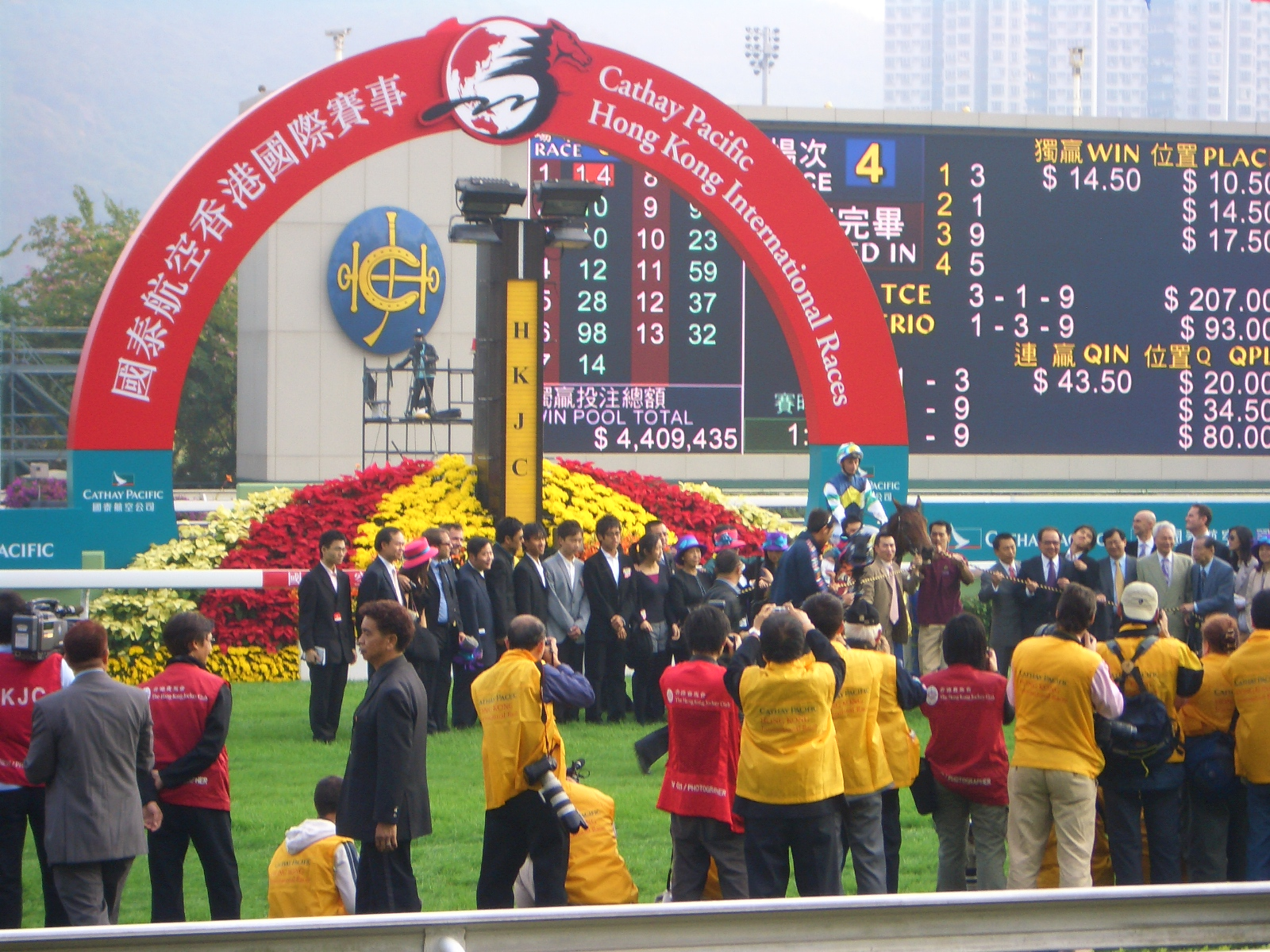 Sacred Kingdoms and (chinese:蓮華生輝) his owner and trainer taking photo